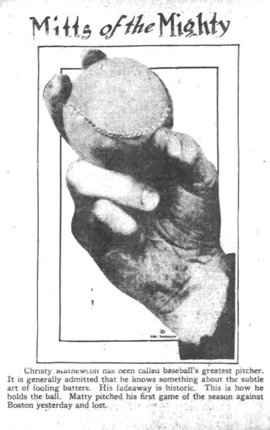 A cut fastball (also known as as cutter) grip from The Day Book from Chicago, Illinois. According to the publication it was the grip held by Christy Mathewson.